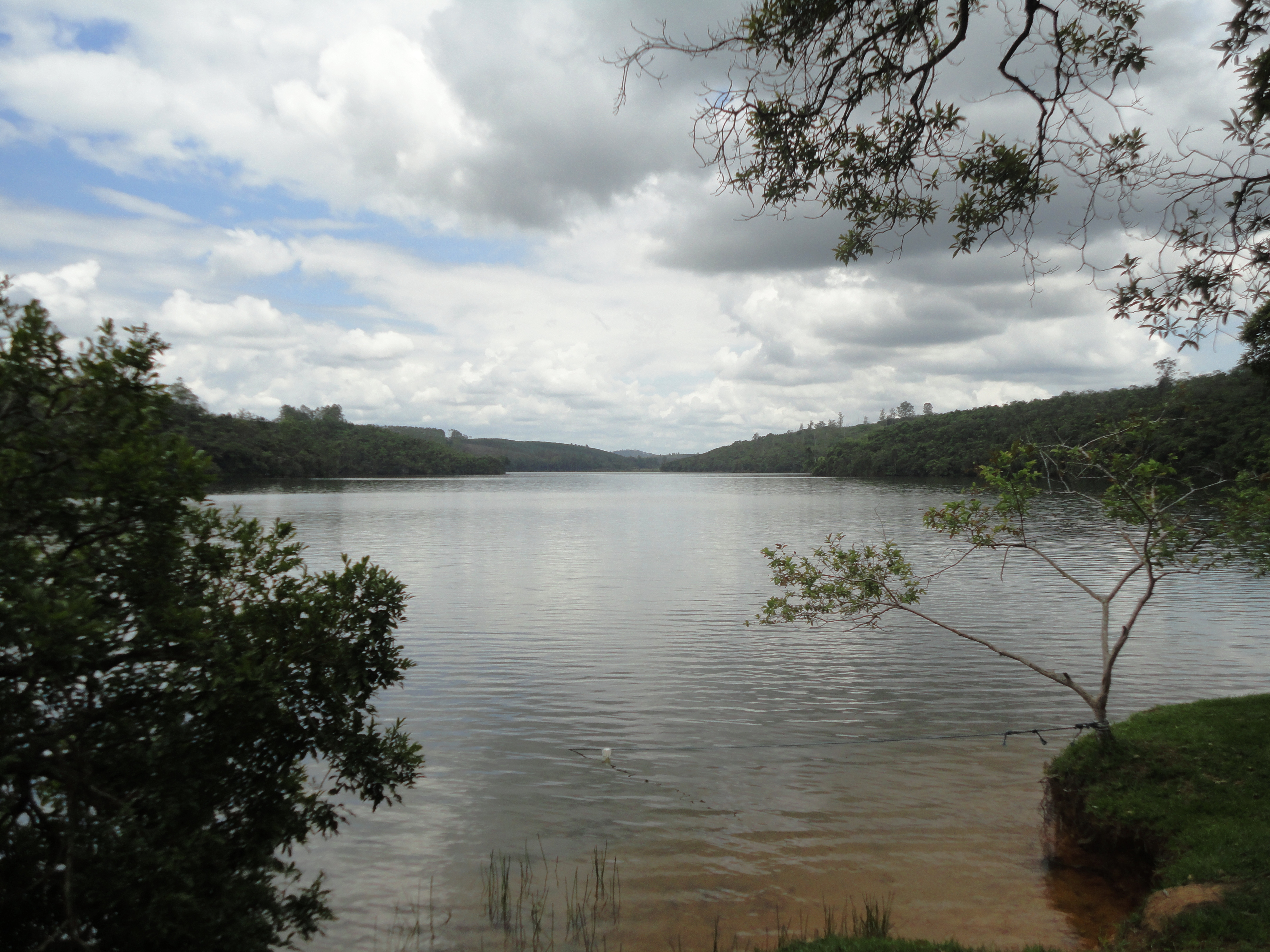 Bonita Lagoon, in Bom Jesus do Galho, Minas Gerais, Brazil.